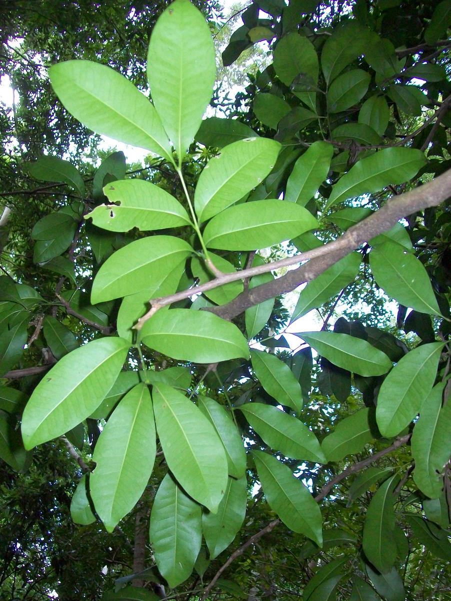 Anthocarapa nitidula at Coffs Harbour Botanic Gardens, Australia